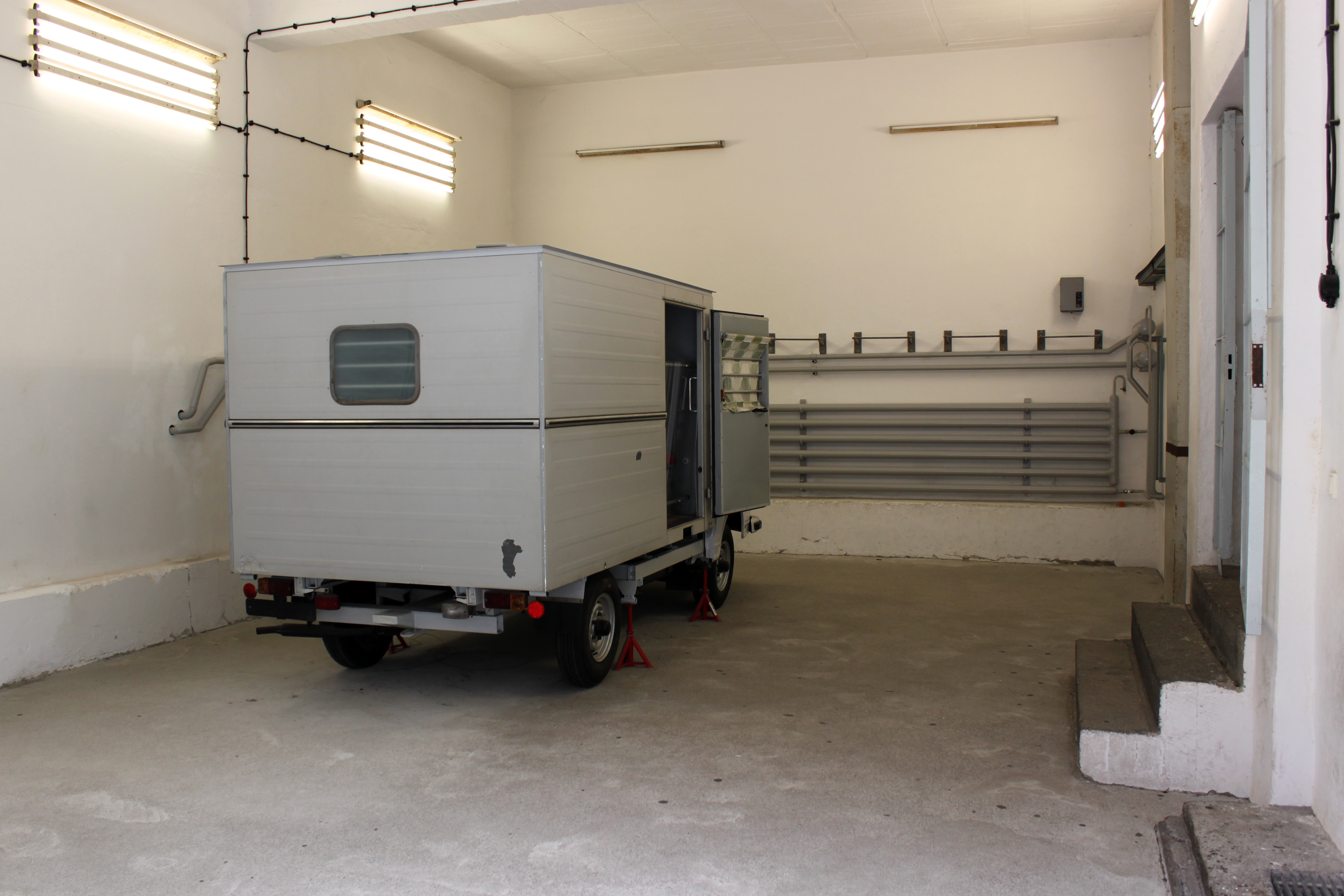 Memorial Berlin-Hohenschönhausen - a former Soviet special camp and remand prison of the Ministry for State Security - "lobby" with prison transport Barkas B1000